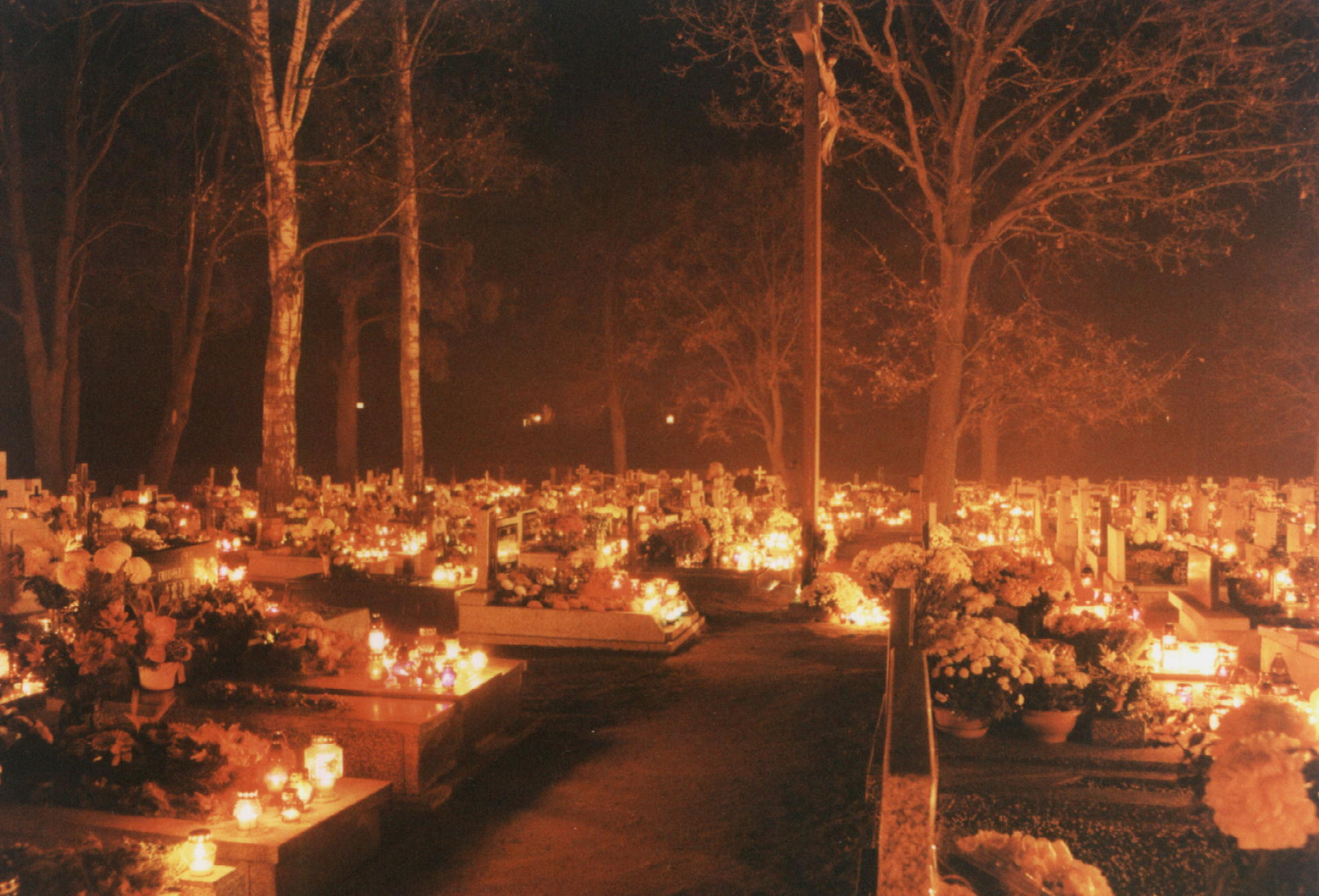 All Saints Day in Boronów (Poland)